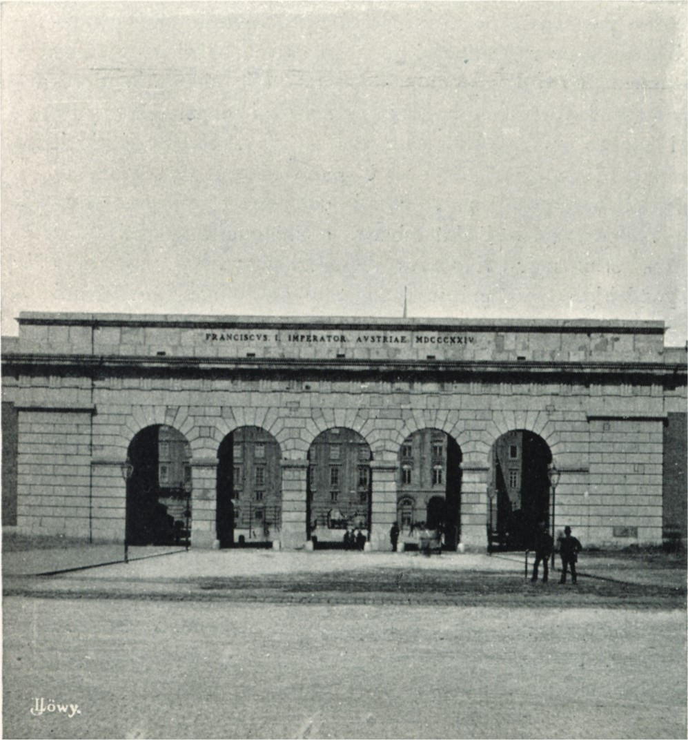 Äusseres Burgtor in Vienna, seen from Ringstrasse